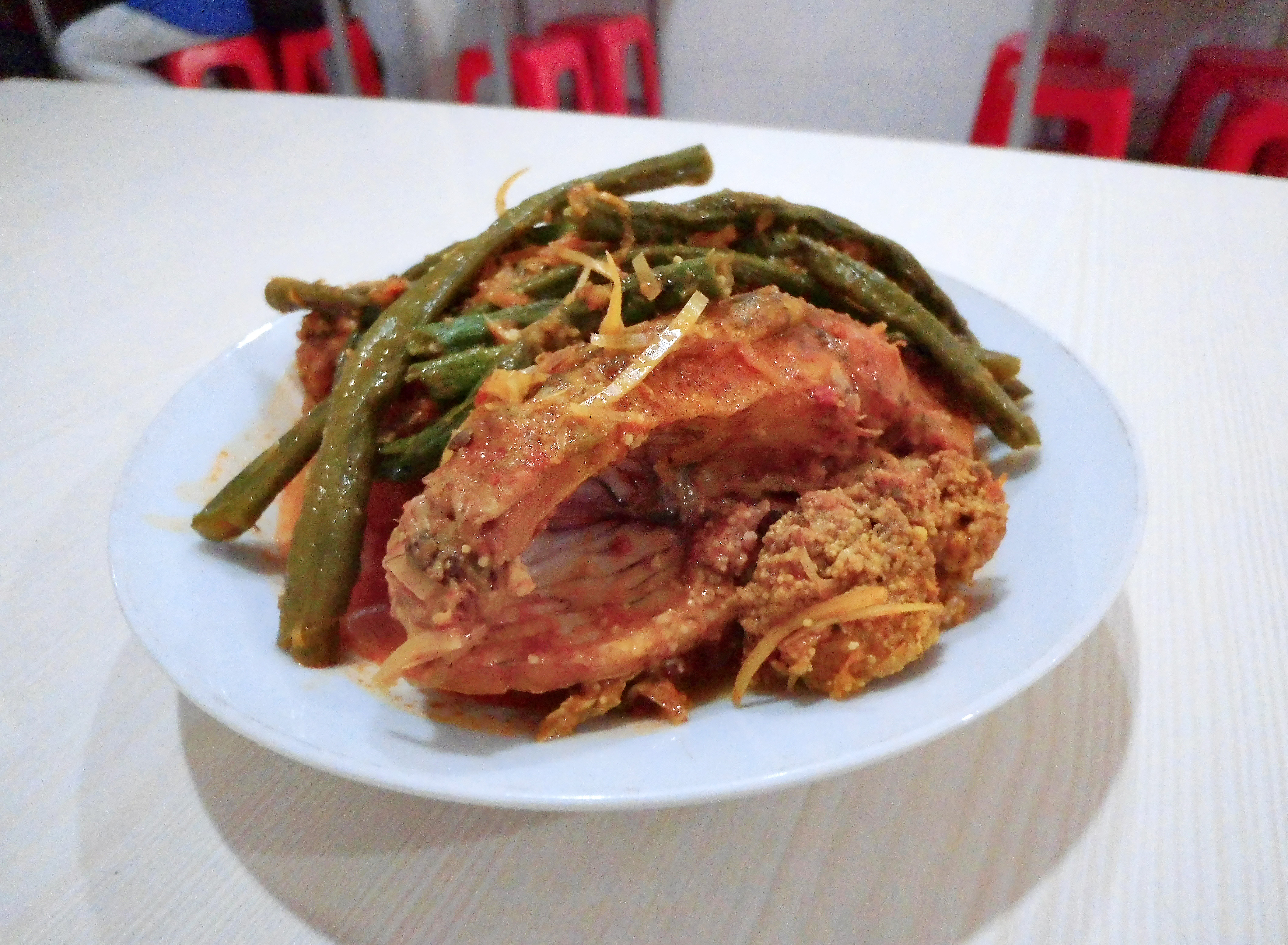 Carp Arsik, spicy fish dish of Batak cuisine, North Sumatra, Indonesia.